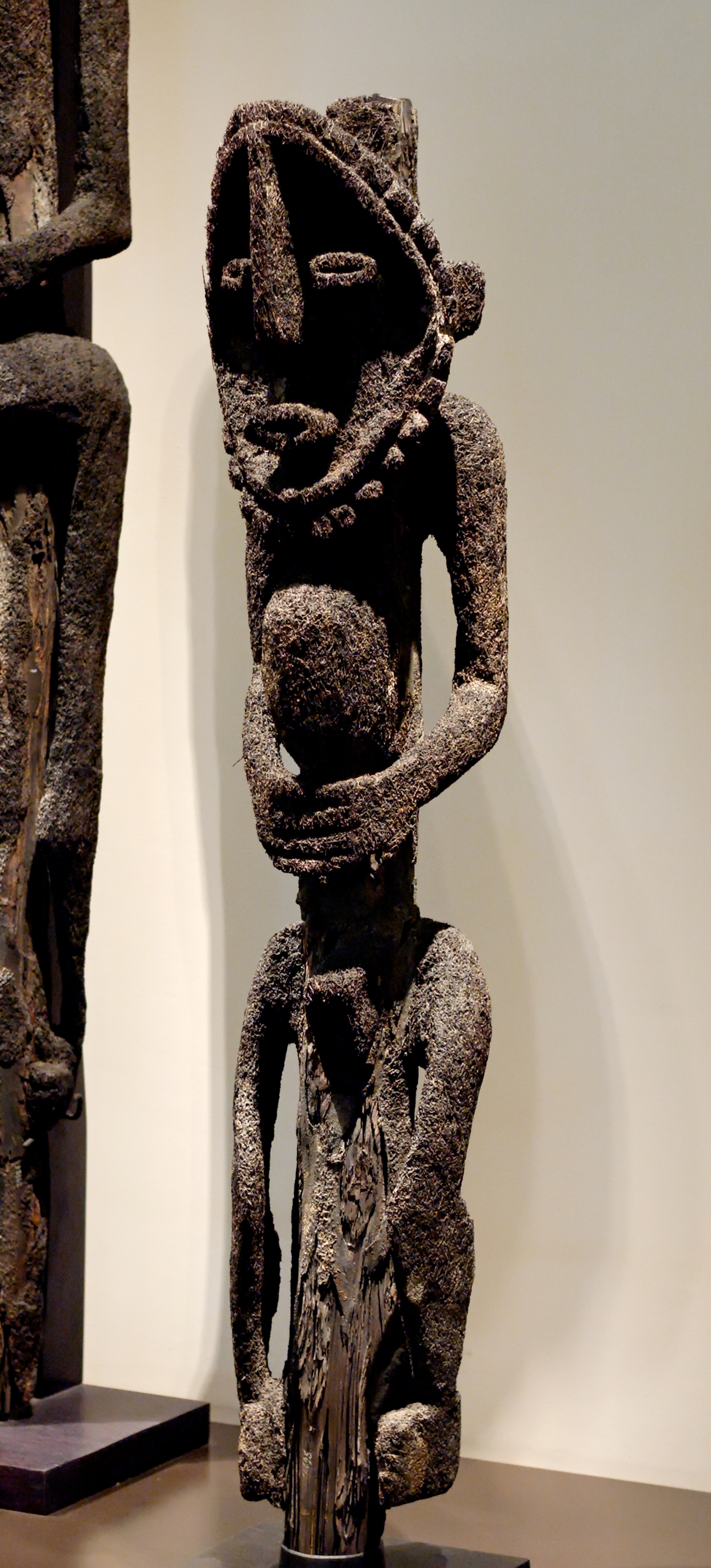 Tamat doro figure: grade statue of a female spirit ornating the house of a high-ranking man. Tree fern, east of Gaua Island (Banks Islands, Vanuatu), 19th century.